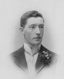 Photograph of Albert Walsh in the early 1900s